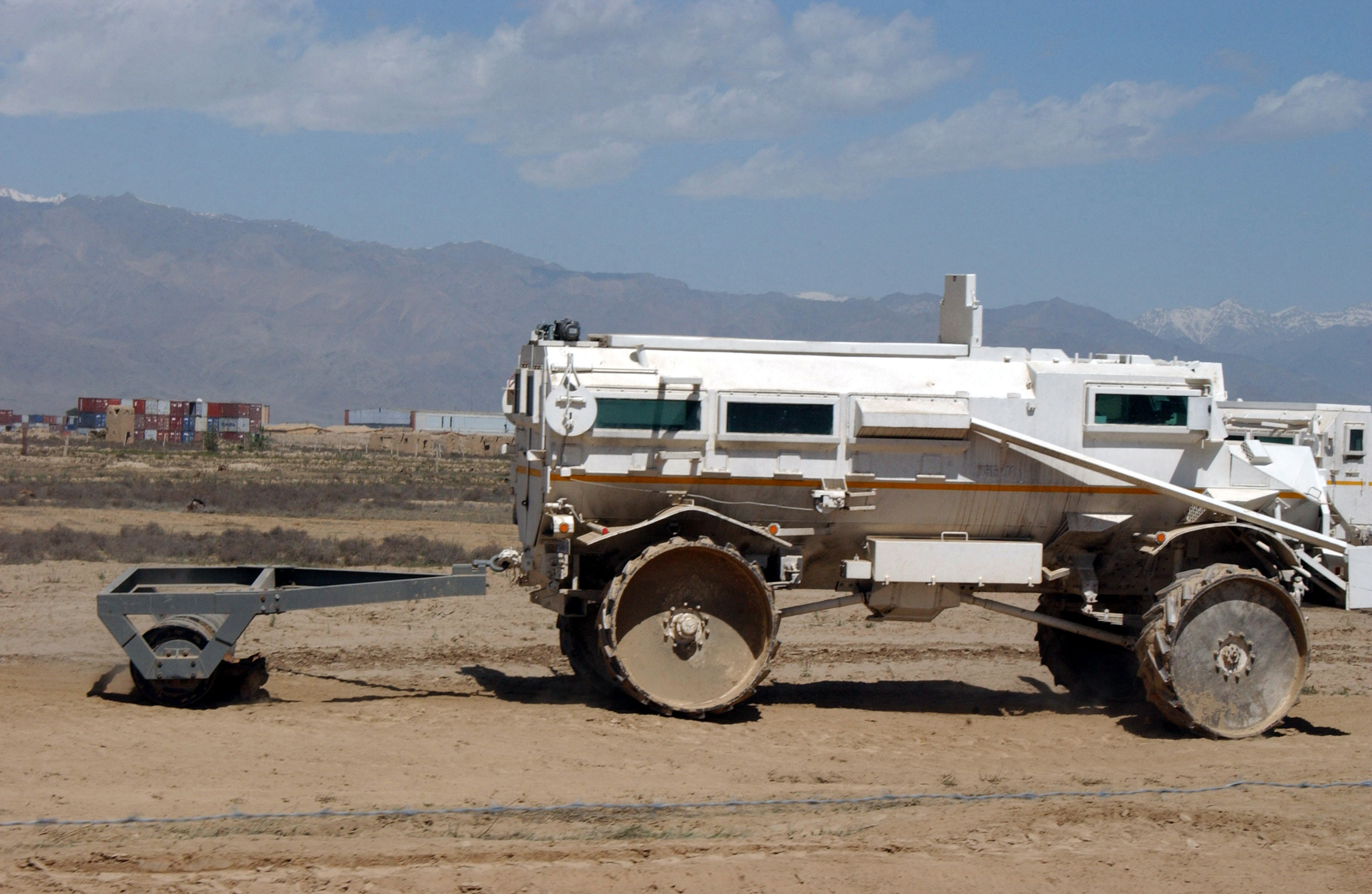 A Casspir Mine-Protected Vehicle (MVP), equipped with all steel wheels, is used to search for land mines and unexploded ordnance in an uninhabited area near Bagram Airfield, Afghanistan, during Operation IRAQI FREEDOM.